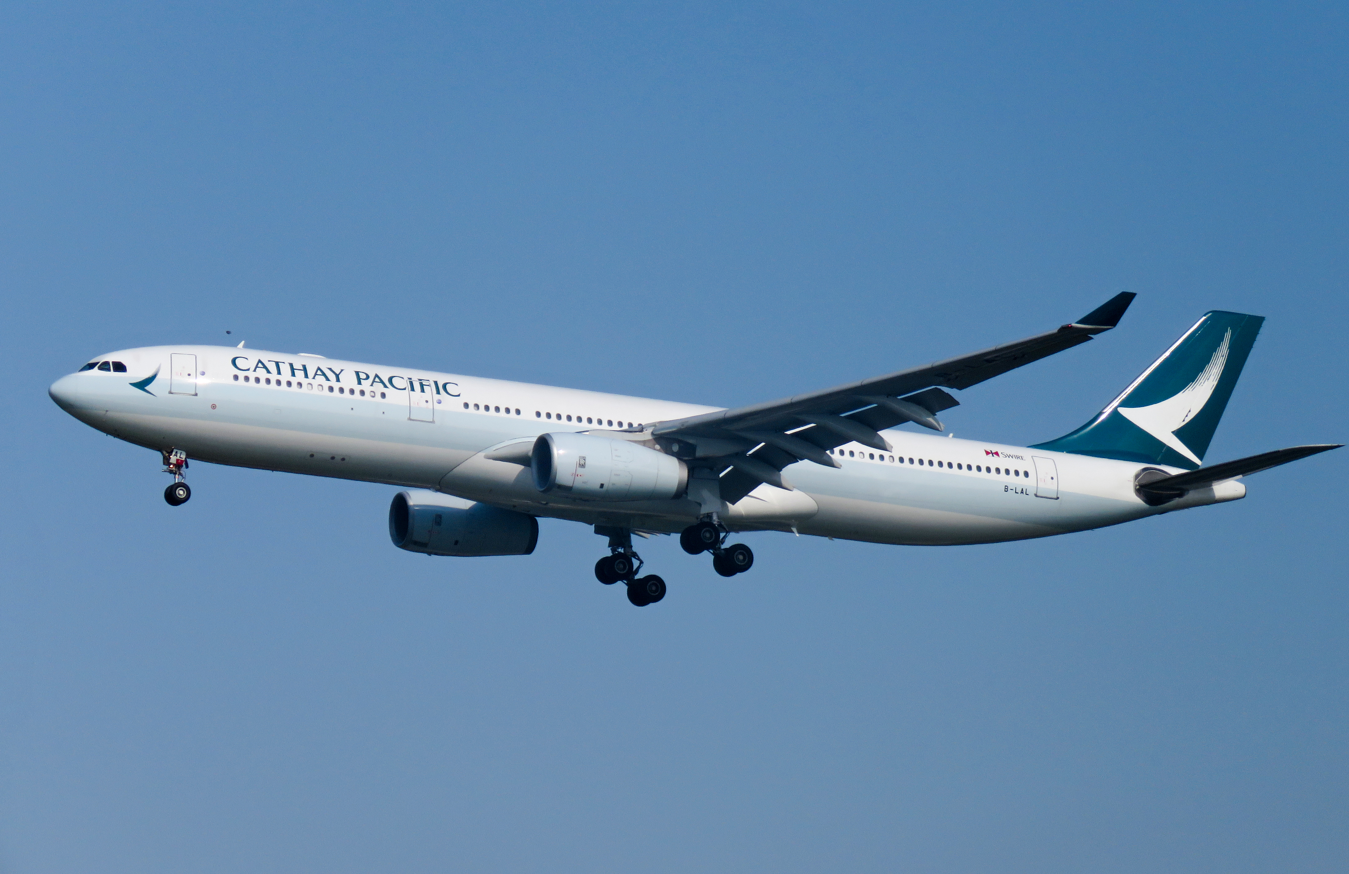 Cathay 332 from Hong Kong.